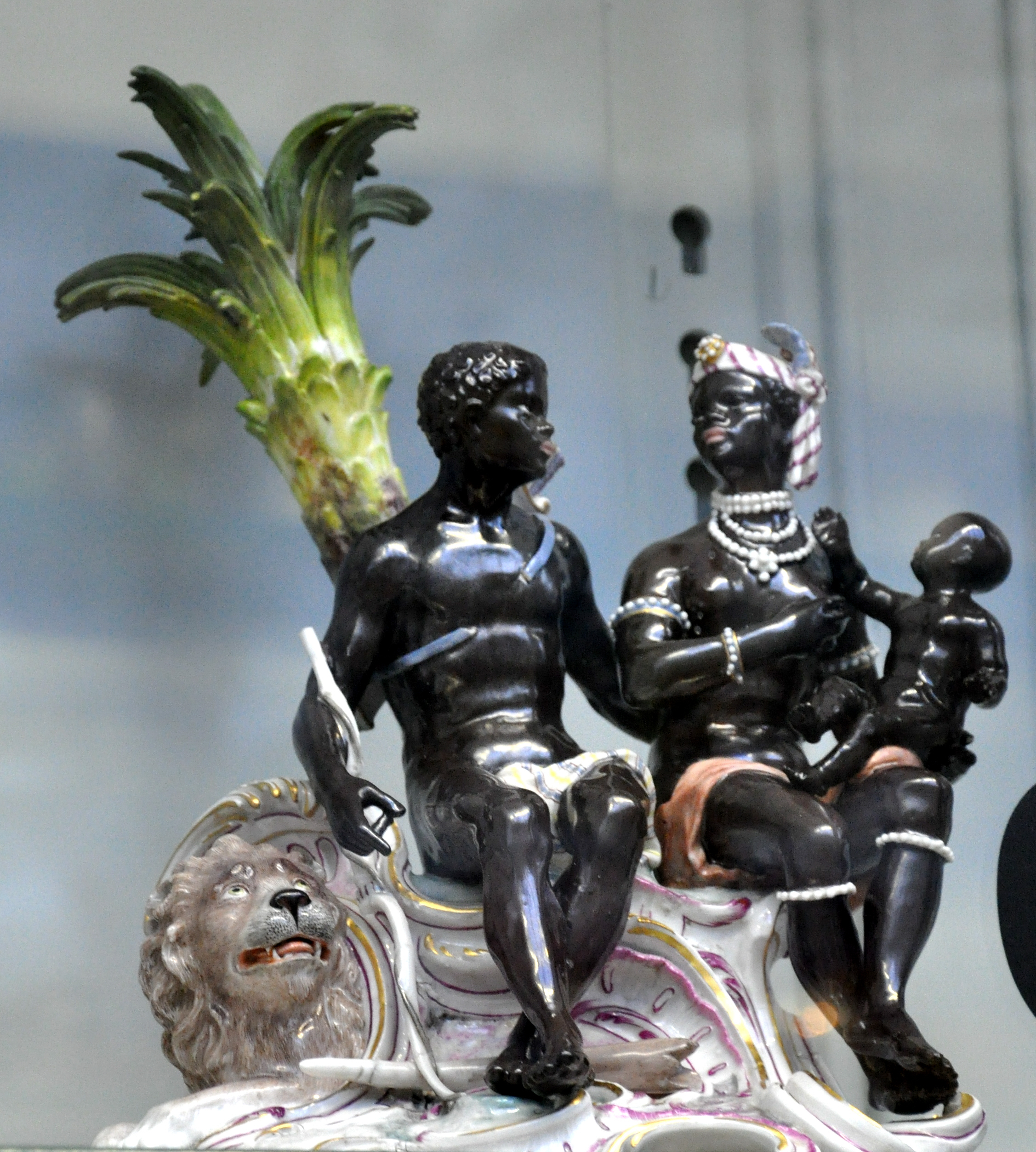 Figure group Allegory of Africa